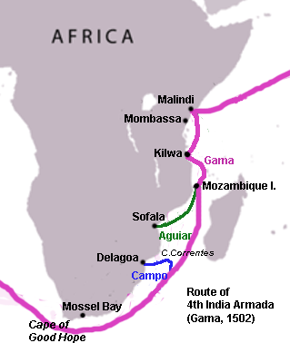 Outward journey of 4th Portuguese India Armada (Vasco da Gama, 1502), showing also the side-trip of Pedro Afonso de Aguiar to Sofala.